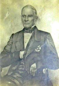 João da Silva Machado, the future Baron of Antonina.